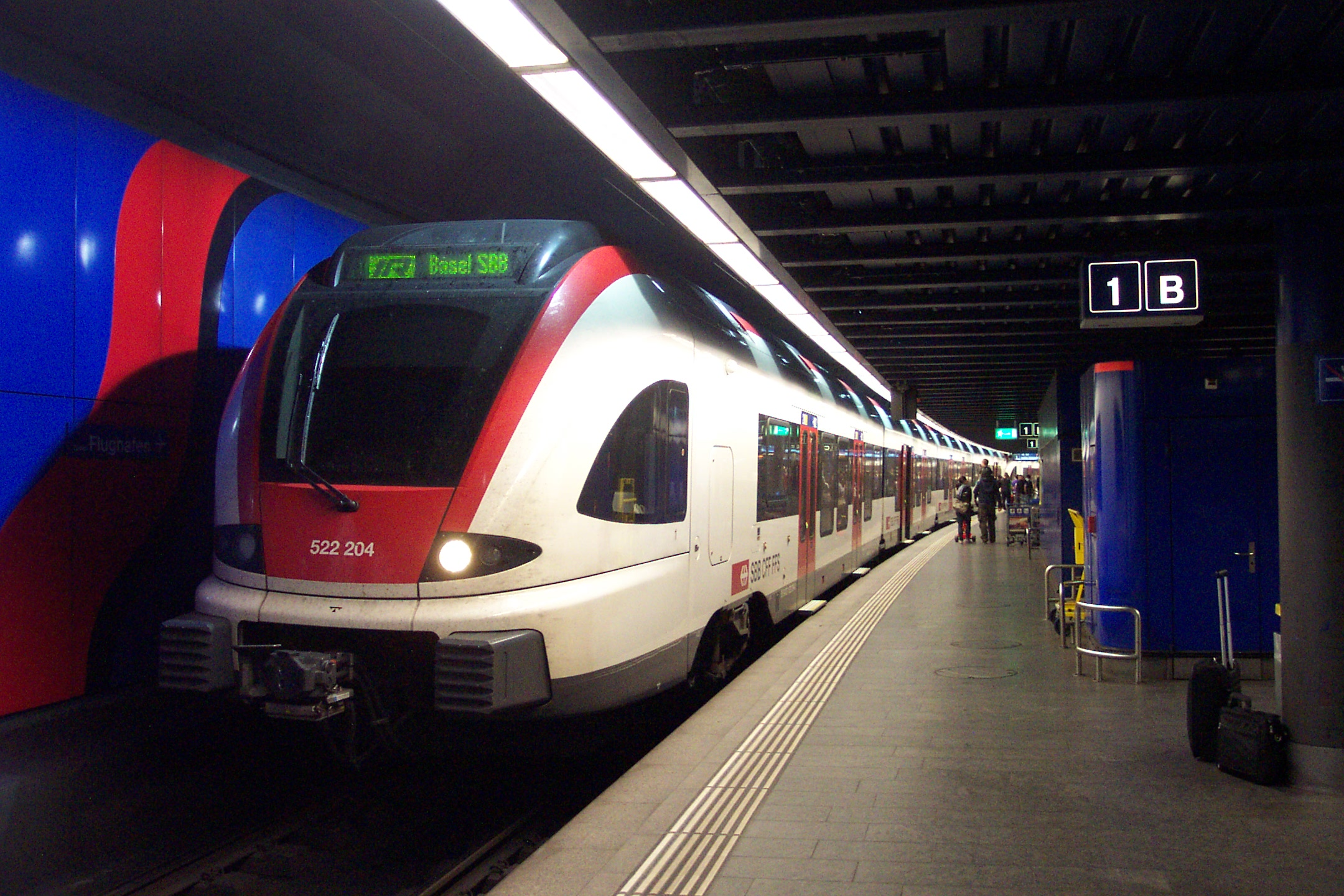 SBB Class RABe 522 (a Stadler FLIRT derivative) at Zurich Airport. For more information, please see Wikipedia articles Stadler FLIRT and Zurich Airport railway station.